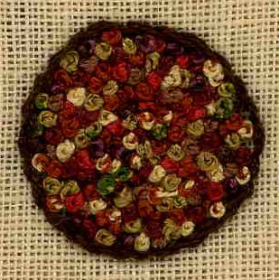 Detail of Image:Challah cover chain stitch and french knots autumn panel.jpg, decsription there is: 4 Seasons Challah Cover: Autumn Part of a 4 panel challah cover with abstract samplers to represent each season on golden linen Winter , Spring , Summer Chain stitch is used in a variety of ways: Chain Stitch and Twisted Chain Stitch. Other stitches: french knots, colonial knots, same stitch I can't remember the name of! The embroidery on this panel of the piece is all done in cotton DMC floss. The seems between each panel, which you can see on the right side, have feather stitch in a variegated earth-tone floss. The trim is silk ribbon.